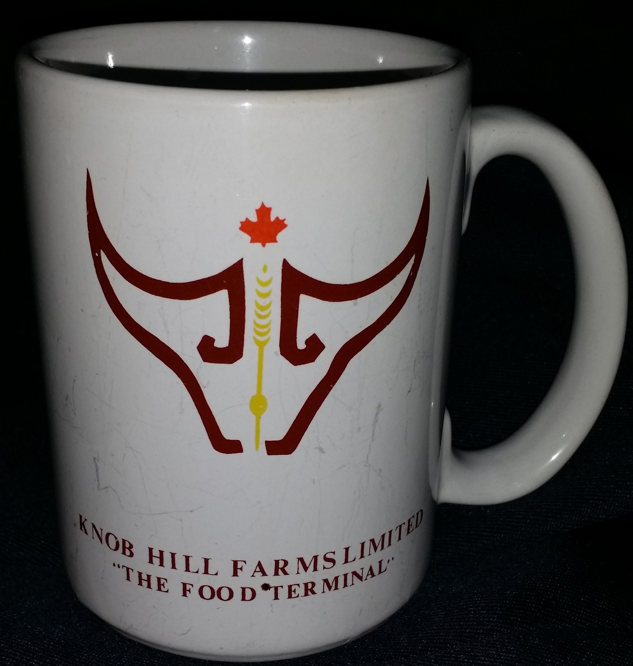 A mug bearing the Knob Hill Farms logo which was available for purchase from the now defunct chain. The mug was purchased in 1995 and as such shows signs of wear.